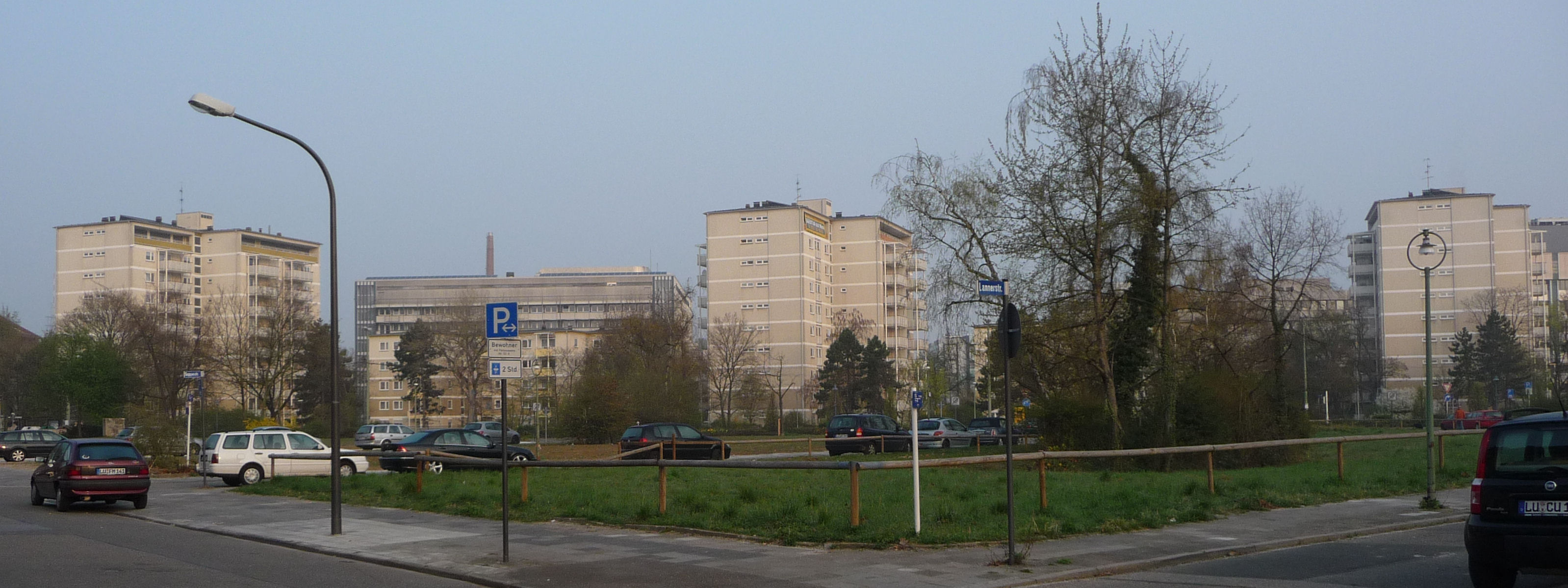 Streets in Ludwigshafen, Germany